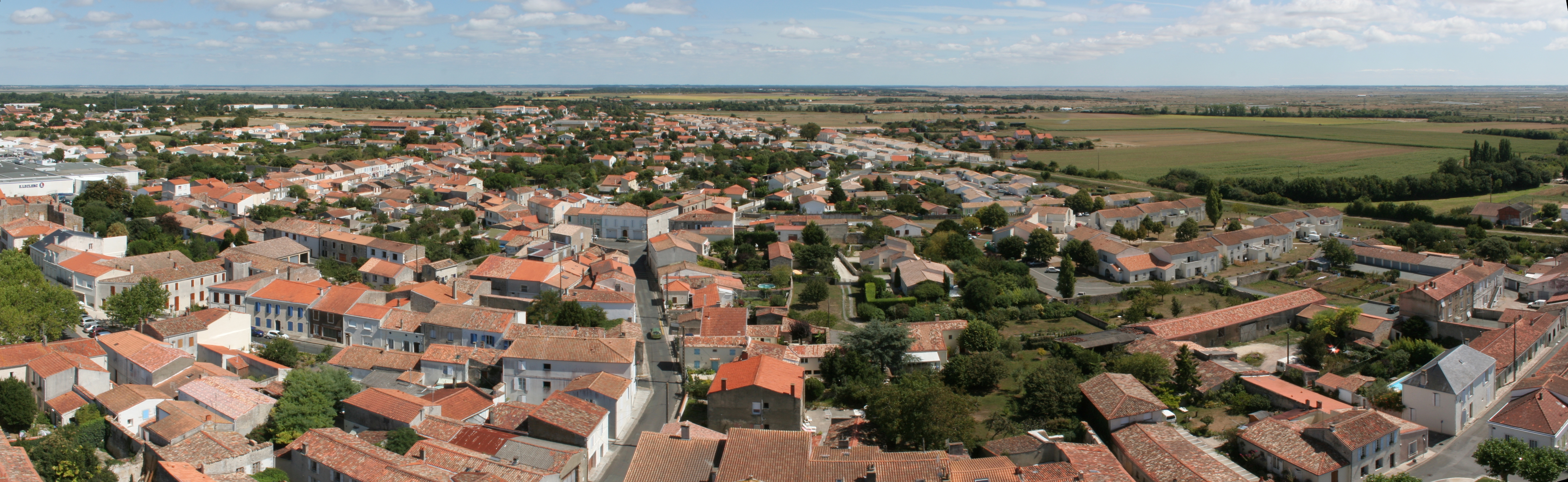 Panoramic view of the town of Marennes, France, taken from the tower of the Saint-Pierre-de-Sales Church, pointing East.